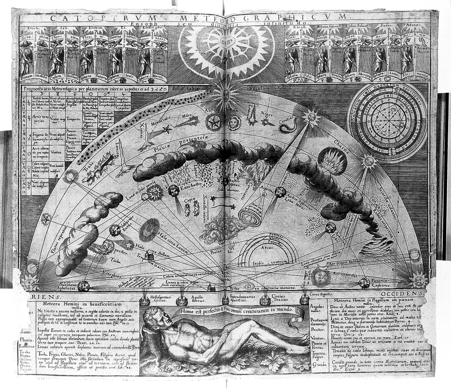 'catoptrum meteorographicum'. Rare Books